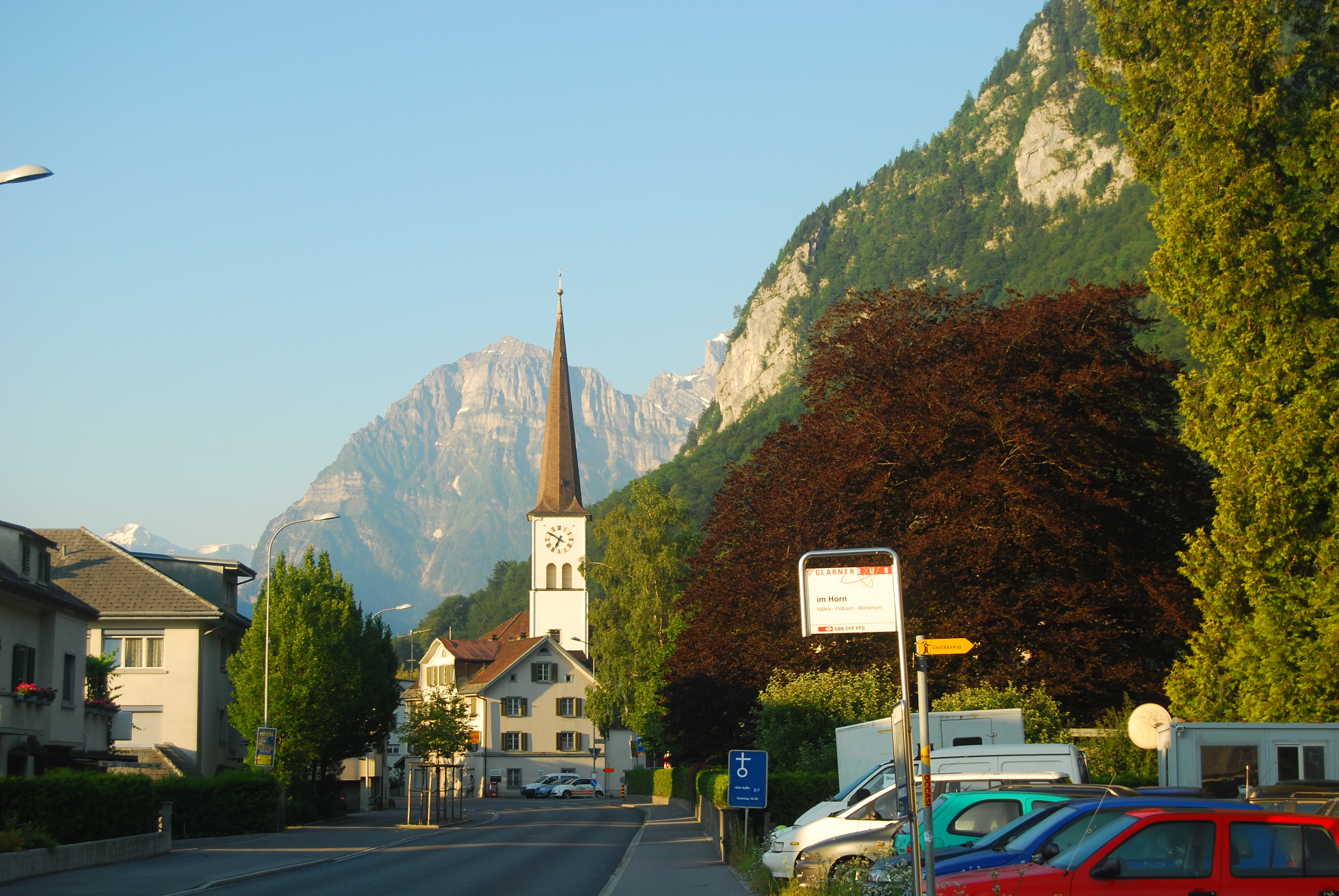 Church of Oberurnen, canton of Glarus, SwitzerlandEsperanto: Preĝejo de Oberurnen, Kantono Glaruso, Svislando